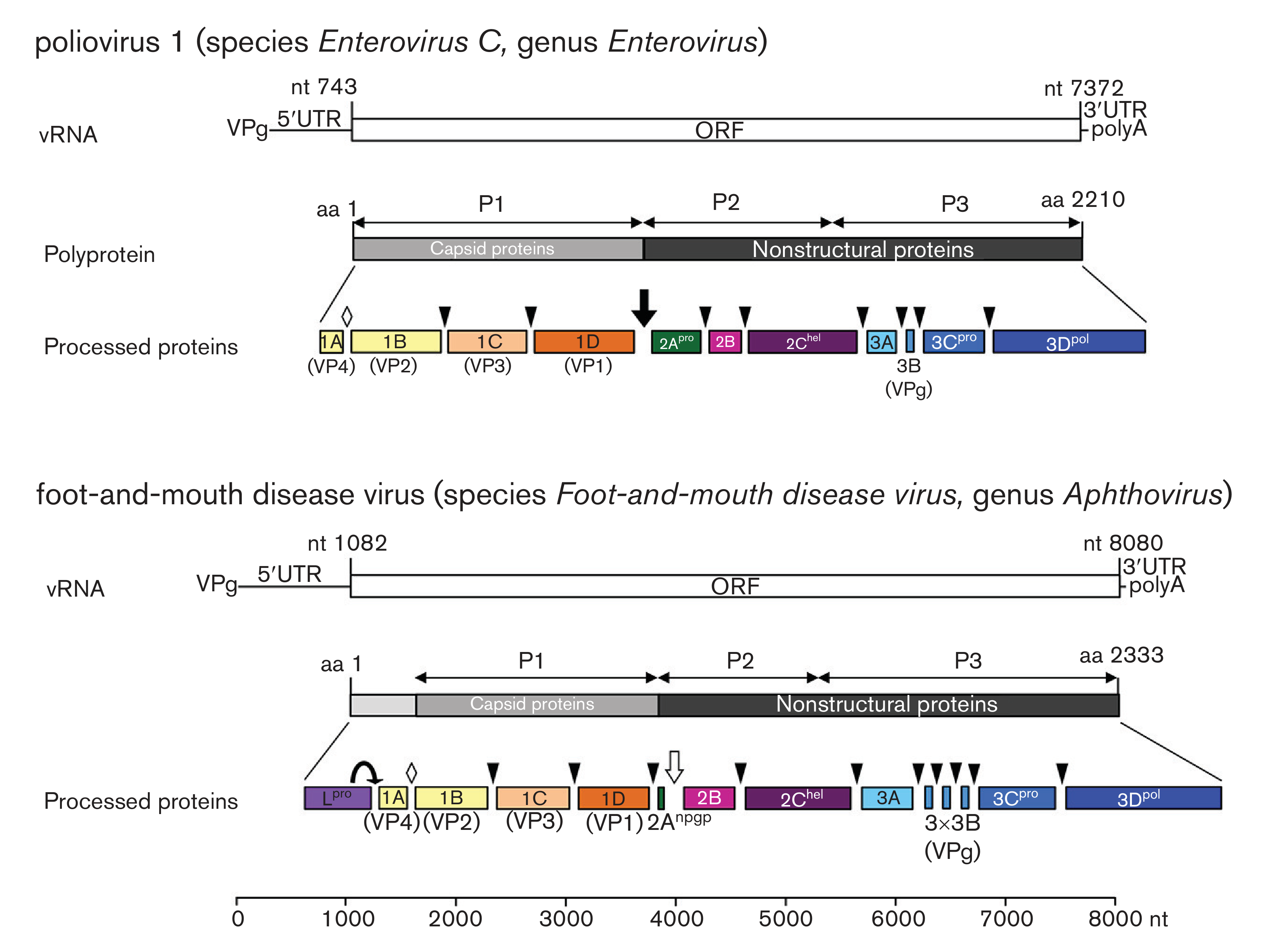 Genome organization and expression of enteroviruses and aphthoviruses. Viral RNA (vRNA) is polyadenylated and covalently linked to a virus-encoded protein (3B) at its 5′ end. Cleavages facilitated by 2Apro of the enteroviruses (black arrow) or by an NPG↓P motif at the C-terminus of 2A of foot-and-mouth disease virus (white arrow) release the P1 and P1-2A proteins, respectively. The leader proteinase Lpro releases itself from the polyprotein by cleavage at its own C-terminus. P2 and P3 polypeptides are precursors of the nonstructural proteins necessary for genome replication. Further polyprotein processing is mediated by 3Cpro (cleavage sites indicated by arrow heads). Processing of 1AB, the precursor of 1A and 1B, is thought to be autocatalytic and occurs in empty capsids or at virion maturation (white diamond).